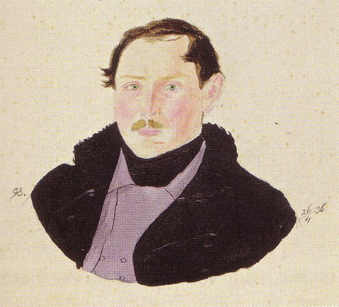 Portrait drawings in Album Amicorum by Wilhelm Schmiedeberg showing Bernhard Gutowski